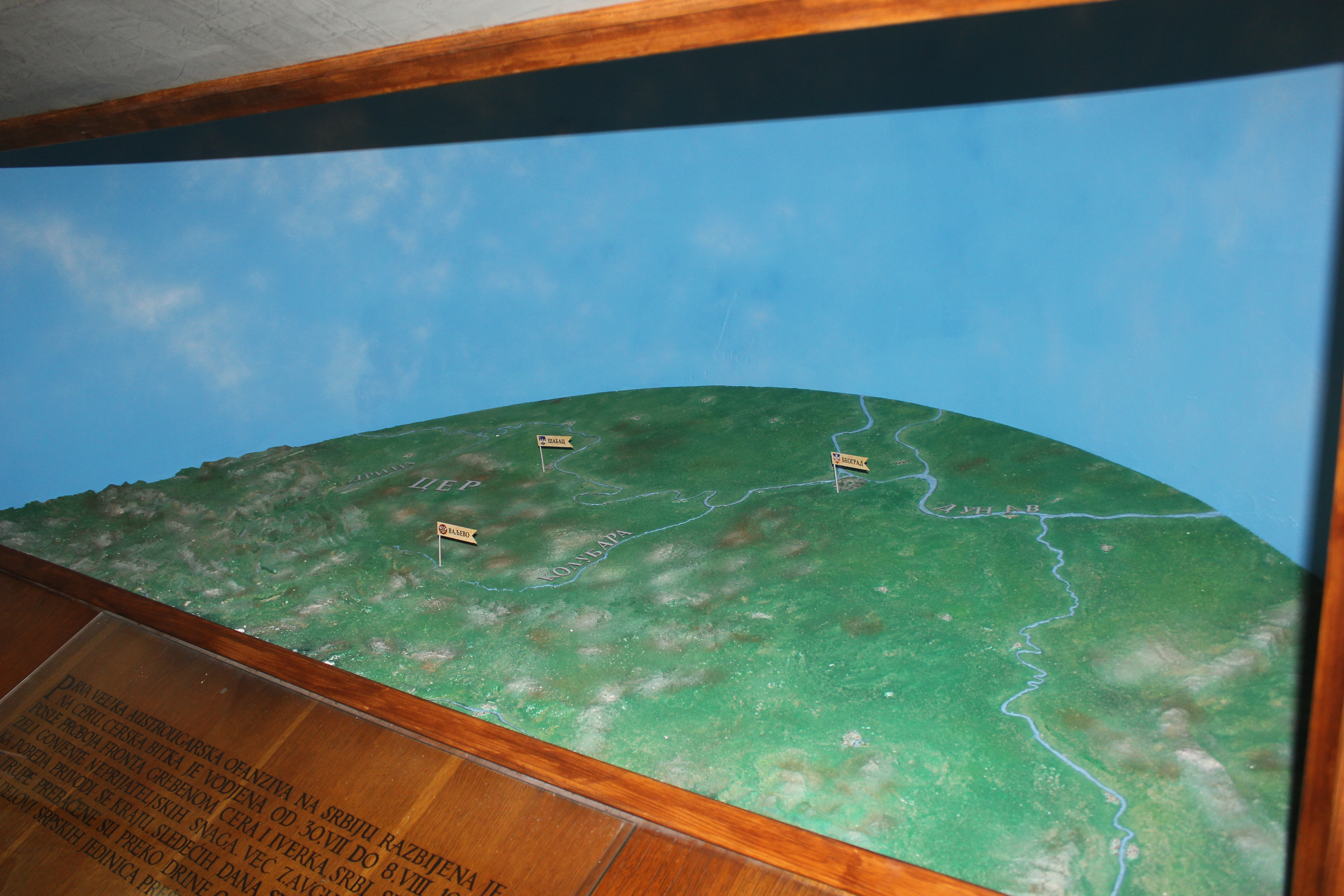 Diorama of Serbian front in 1914